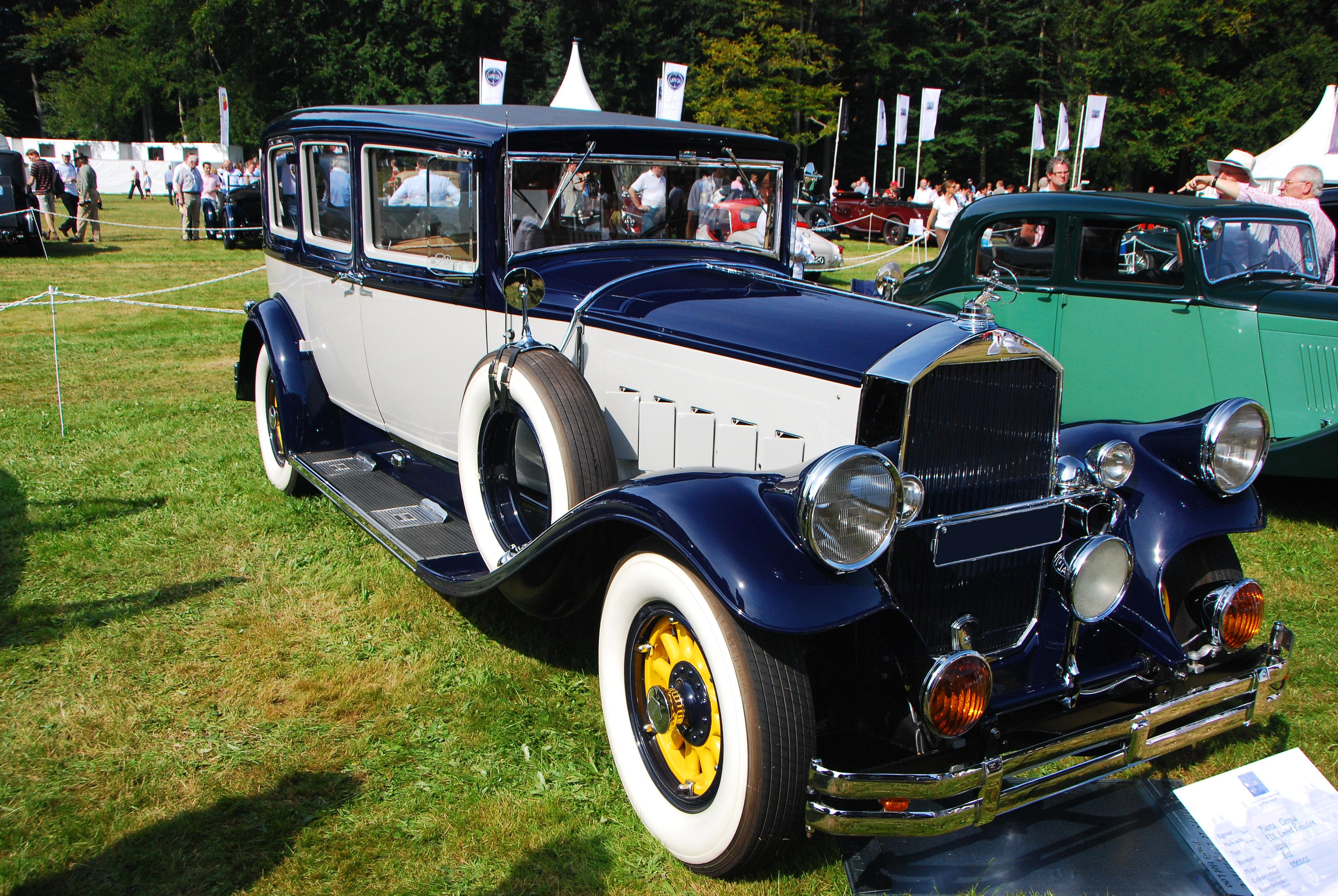 '29 Pierce Arrow seen during Cncours d'Elegance 2008, Apeldoorn (NL)